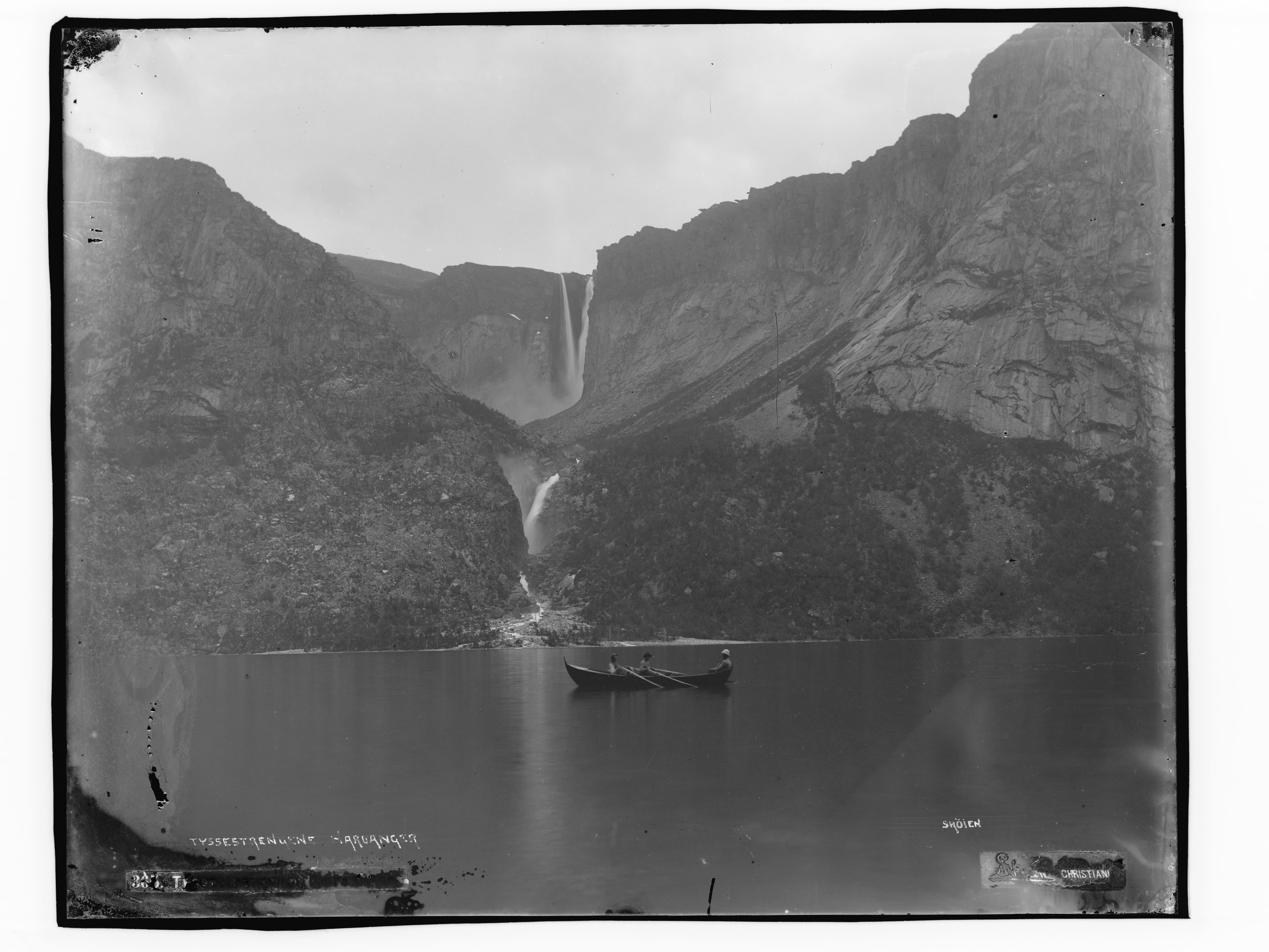 Tyssestrengene waterfall seen from the lake (before the river was diverted to hydro power plant). Trolltunga right hand.